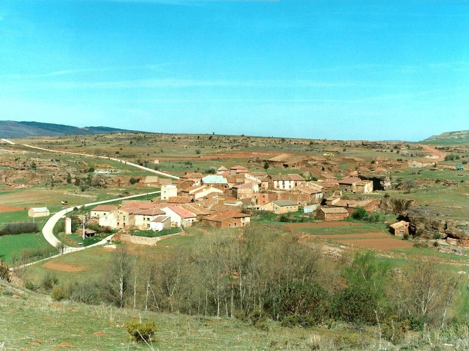 Vista aérea de Valvenedizo.